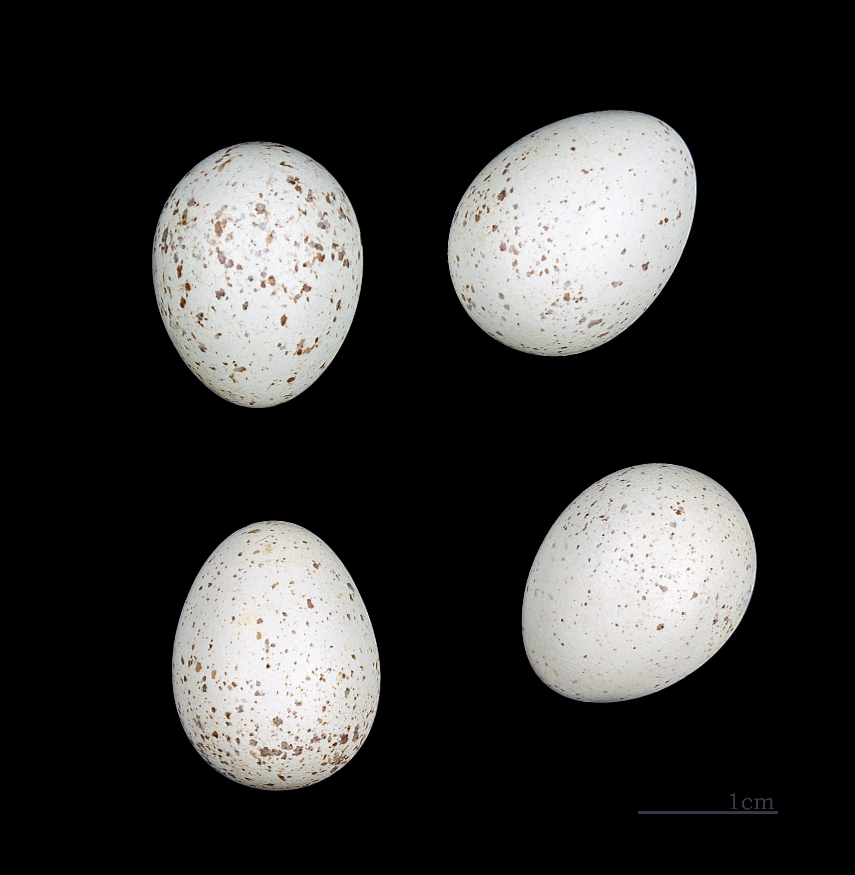 Egg of Red-headed Bunting. Collection of Jacques Perrin de Brichambaut.